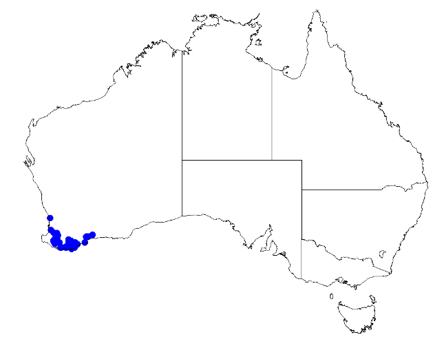 Boronia nematophylla downloaded from Australasian Virtual Herbarium 10 April 2019 using This download included all the environmental overlay fields and ALA's data checking fields including "cultivated / escapee", "outside expert range for species", "latitude is negated", "coordinates are transposed", "taxon misidentified", "habitat incorrect for species", and "suspected outlier" (711 fields). Deleting occurrences for which any of the above were true, 46 specimens with coordinates were deleted.